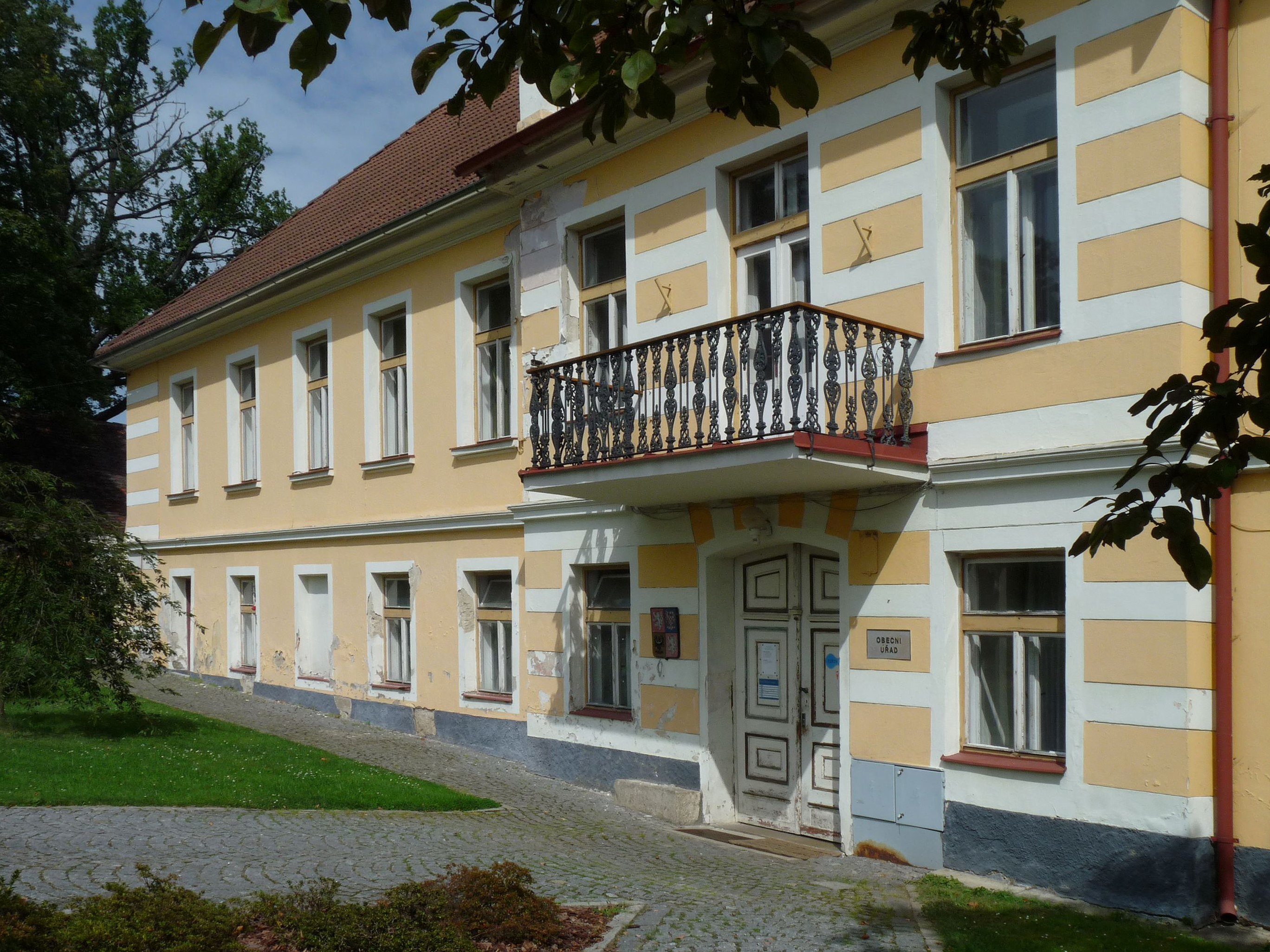 House No 2, municipal office building and local library in the village of Čkyně, Prachatice District, Czech Republic.